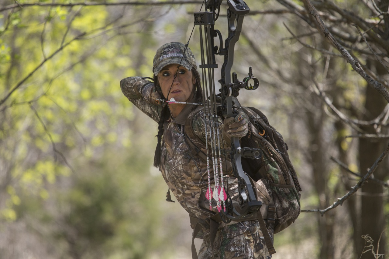 American hunter Melissa Bachman, dressed in camouflage, aims a hunting bow.